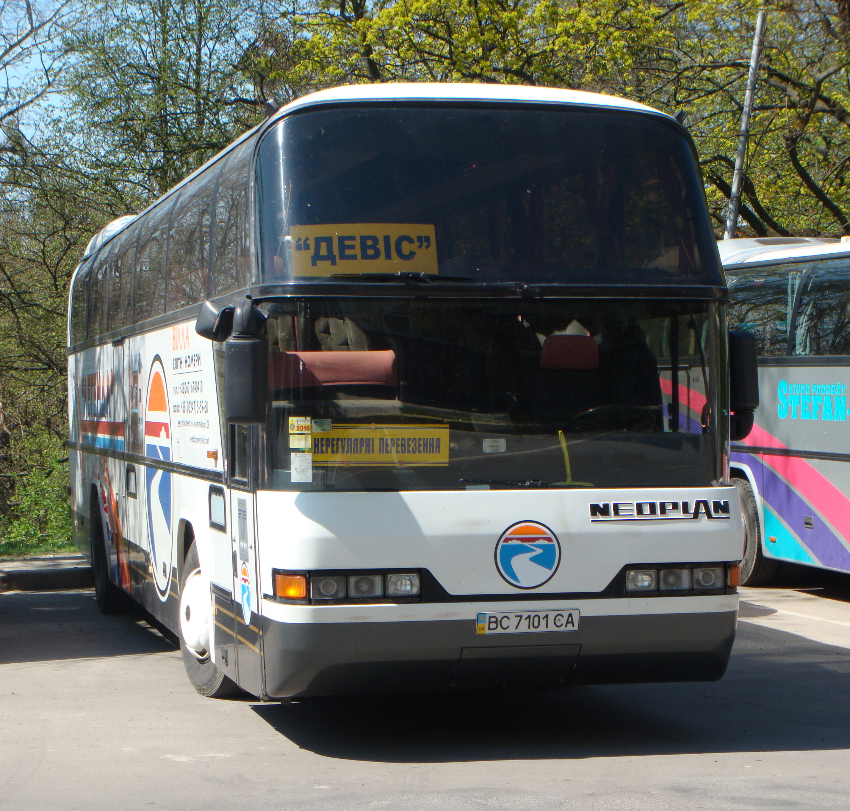 Neoplan Cityliner 95 coach in Lviv, Ukraine.